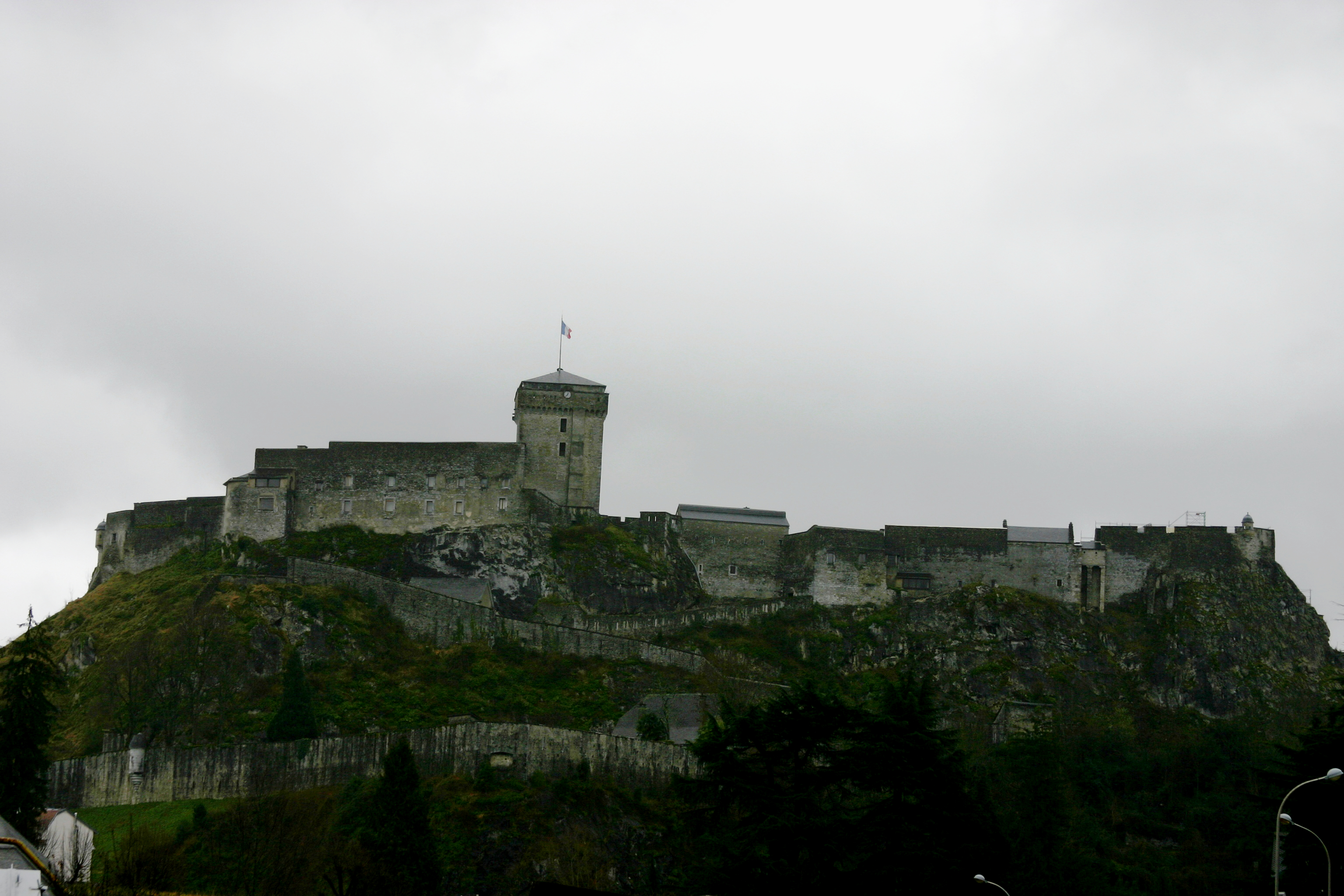 Castle of Lourdes from the Sanctuary